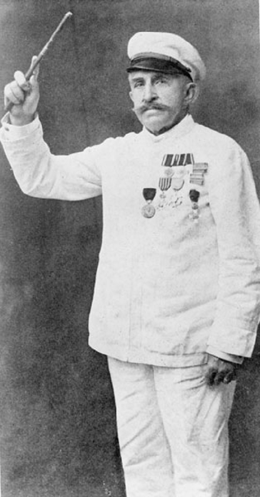 Henri Berger (August 4, 1844, Berlin – October 14, 1929, Honolulu) was a composer and royal bandmaster of the Royal Hawaiian Band from 1872 to his death.